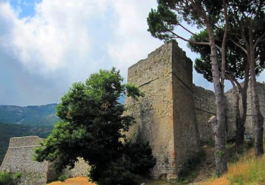 Elba Island